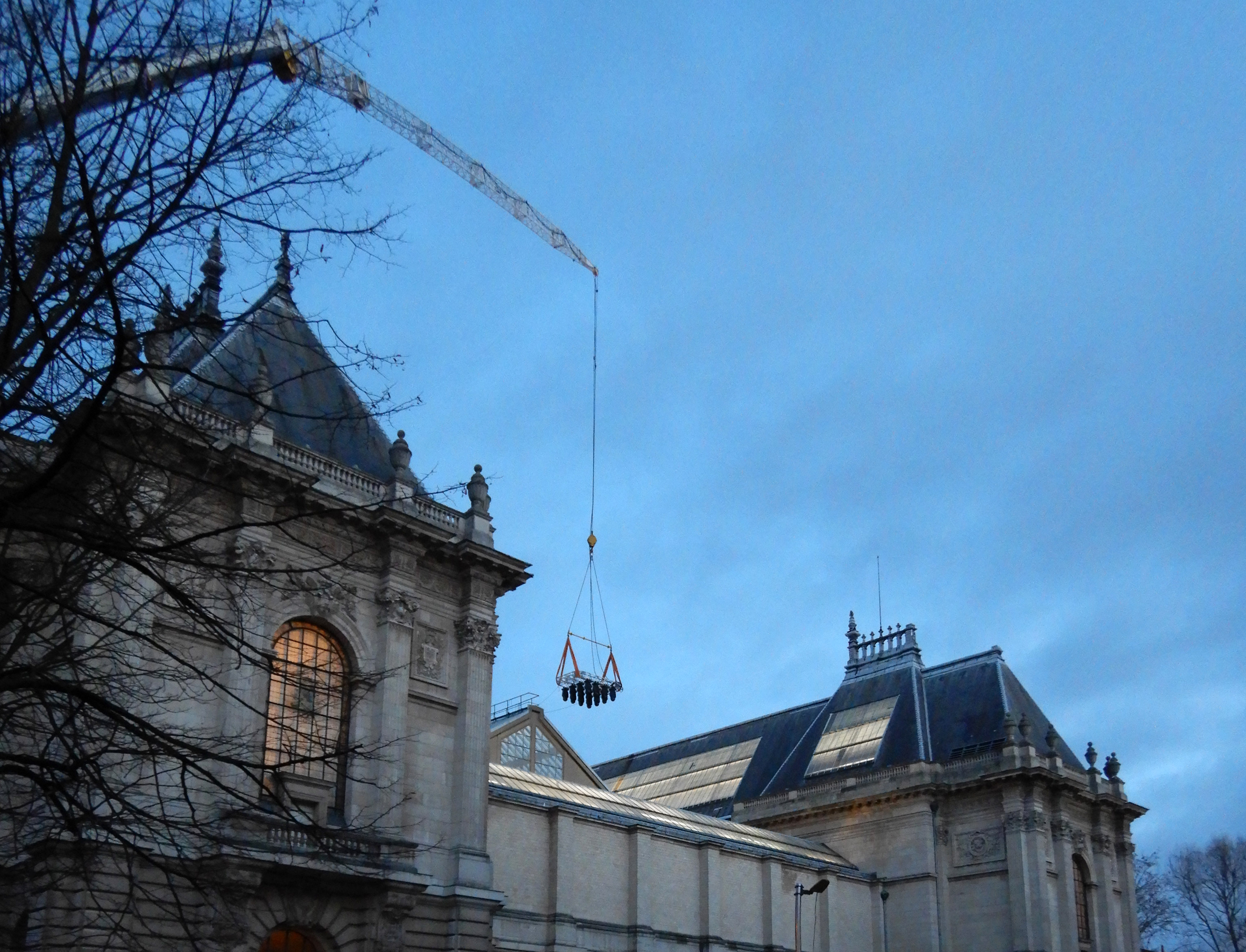 Final preparations (here at dawn) for the filming of the "premiere" of the new version of the rench TV show Le Grand Échiquier in Lille at the Palais des Beaux-Arts. After more than a week of preparation, the filming takes place on December 20, 2018, animated by Anne-Sophie Lapix. Many technicians and vehicles (including Atlass caravans and a large telescopic crane to hang projectors above the Museum ) were mobilized. For the occasion, the Museum was closed to the public for the day, and a parallel street (rue Gauthier de Châtillon) was closed to traffic for several tens of hours.